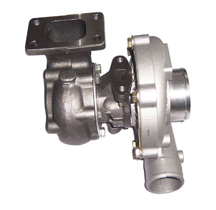 Turbocharger